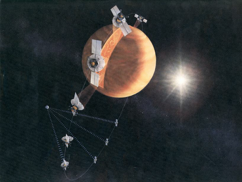 Artistic depiction of the Magellan orbit. At closest approach, Magellan captures radar data and later transmits it to Earth during periapsis.